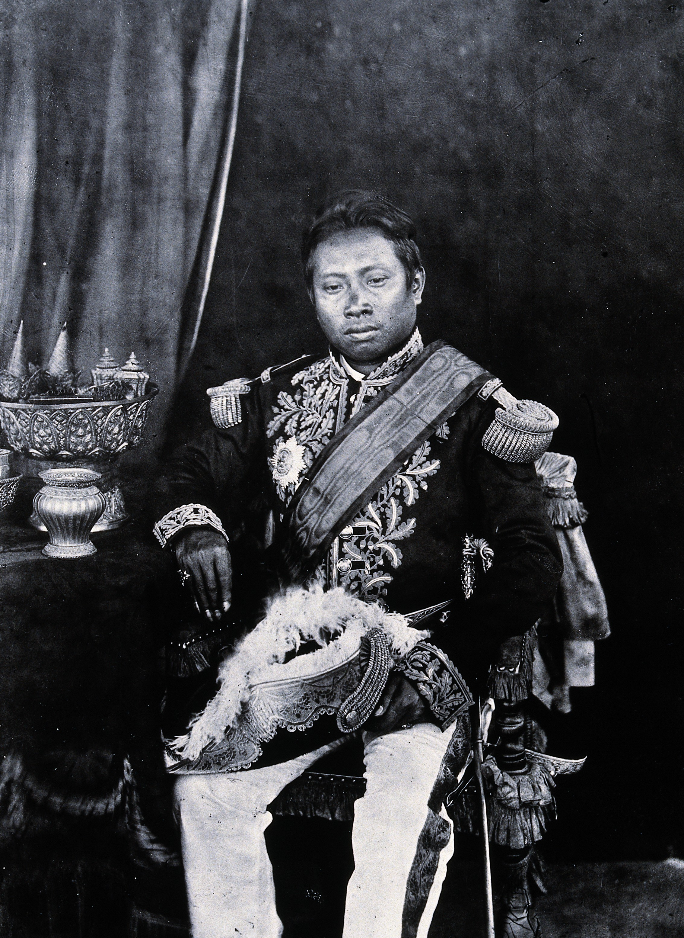 Norodom, the King of Cambodia Iconographic Collections Keywords: J. Thomson; Cambodia; John Thomson